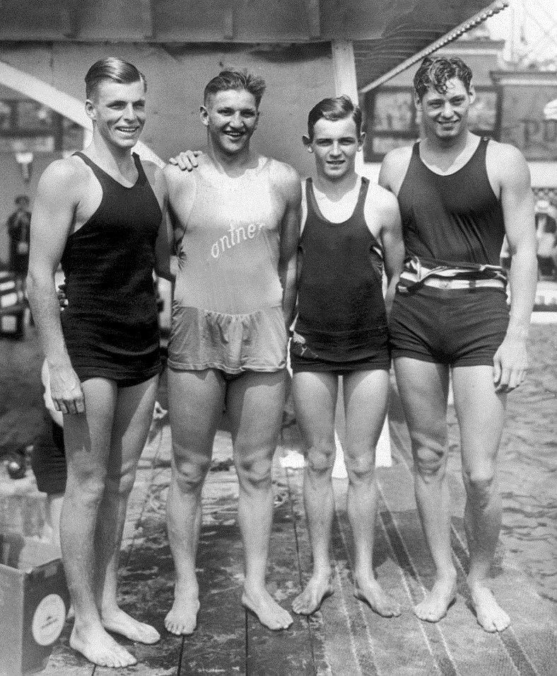 Four Of The Best American Swimmers Before The 1928 Olympic Games Of Amsterdam : Clarence Crabbe From Honolulu, George Kojac And Ray Ruddy Of New-York And Johnny Weissmuller From Chicago.